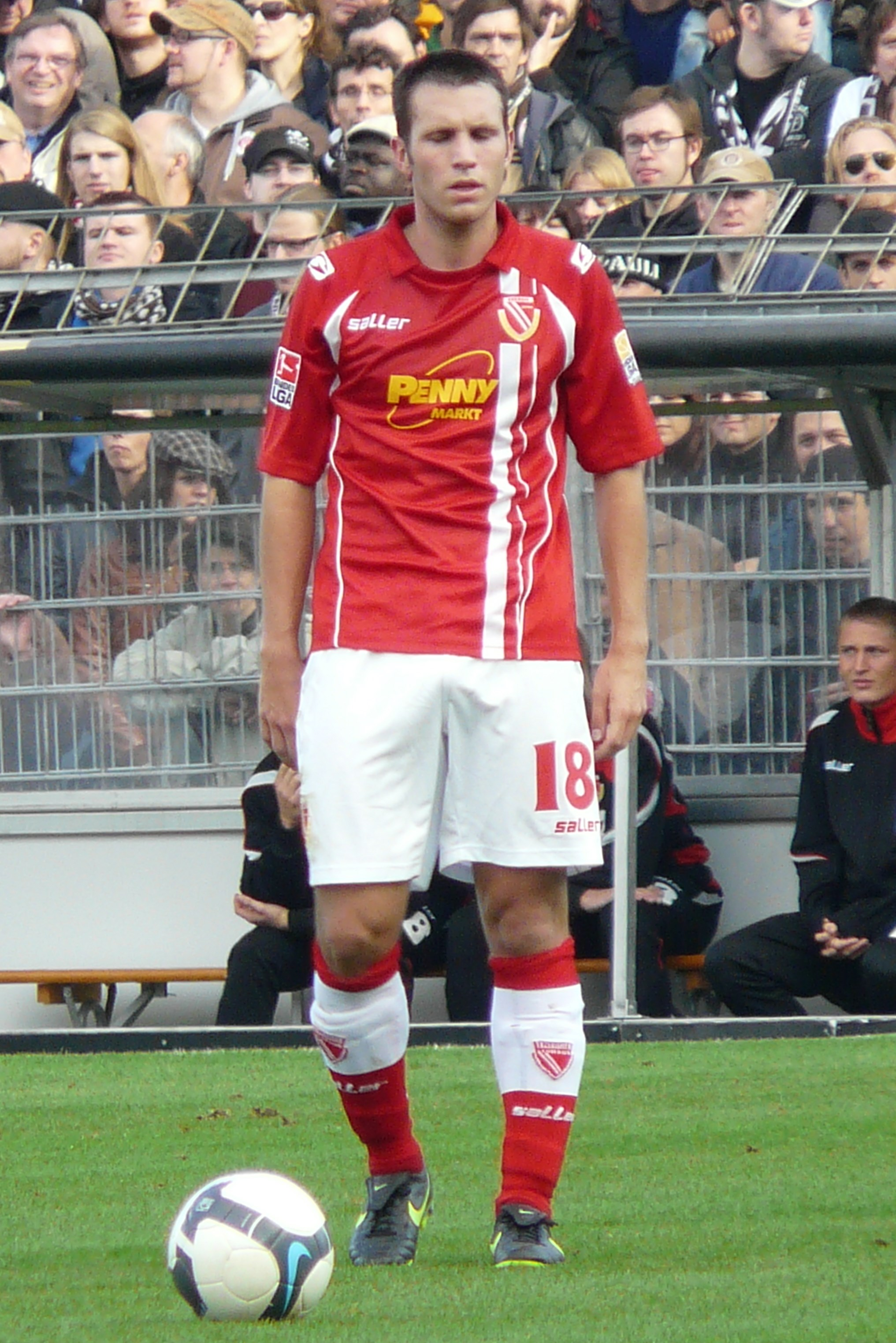 Marc-André Kruska as Player from Energie Cottbus